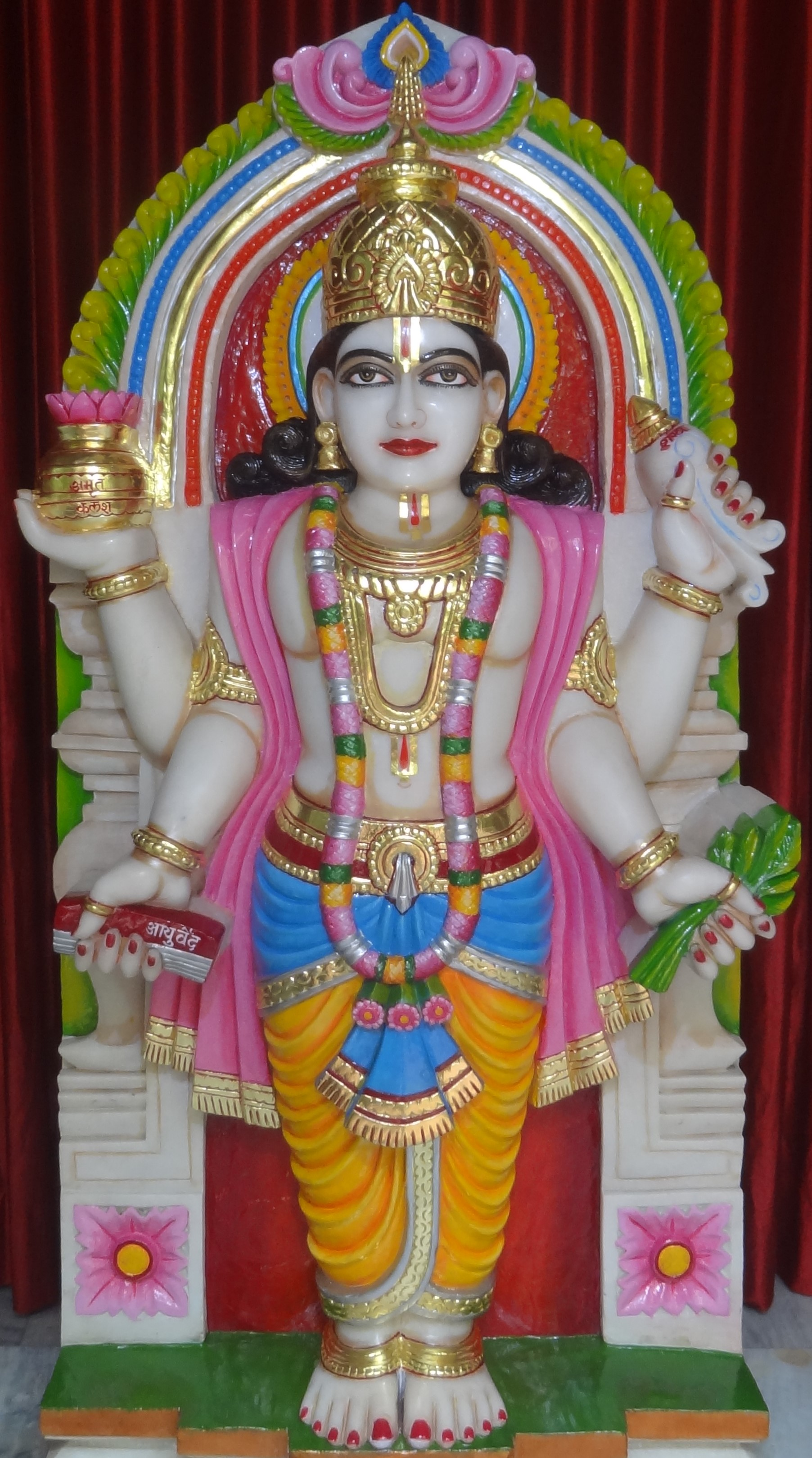 This is a marble idol of Lord Dhanwantari at dhanwantari Temple at Ayurved Sankul, Anand, Gujarat, India.